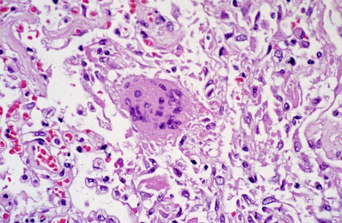 ID#: 3659 This photomicrograph reveals lung tissue pathology due to SARS. This image shows pathologic cytoarchitectural changes indicative of diffuse alveolar damage, as well as a multinucleated giant cell with no conspicuous viral inclusions.